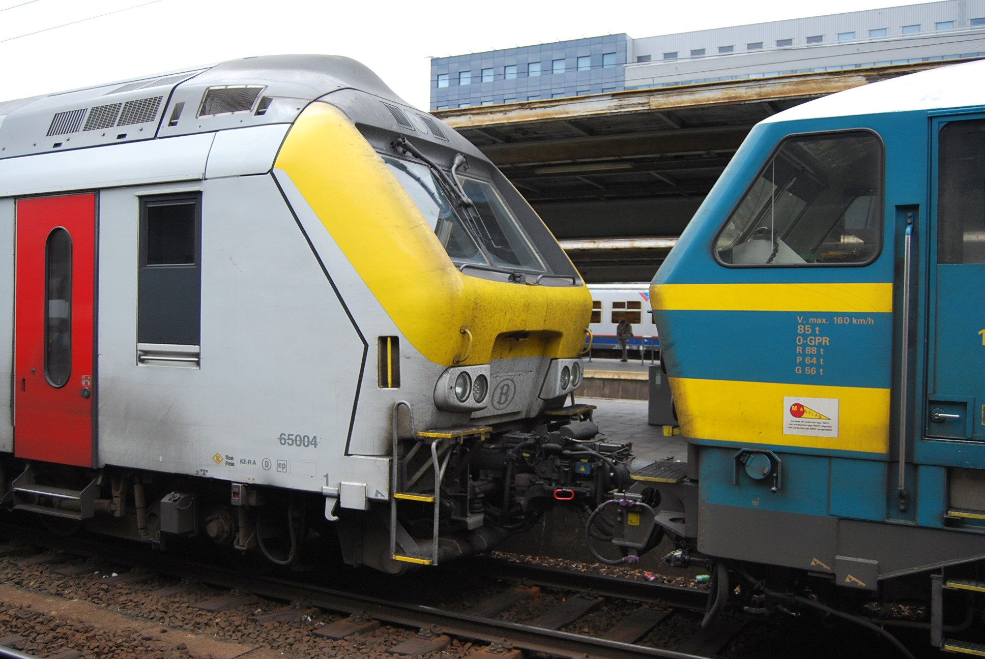 M6 and Class 27 train